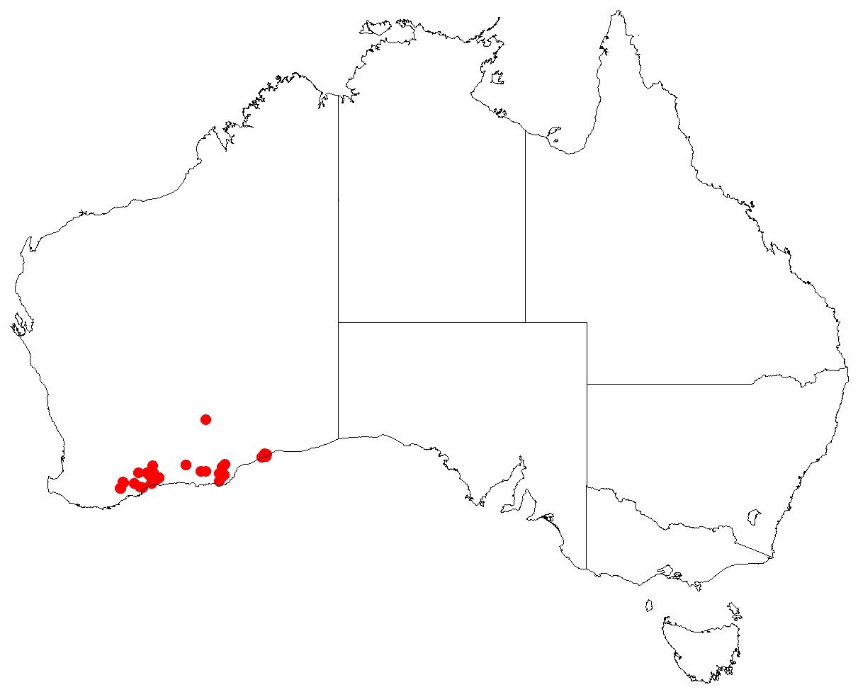 Allocasuarina scleroclada Occurrence data from AVH